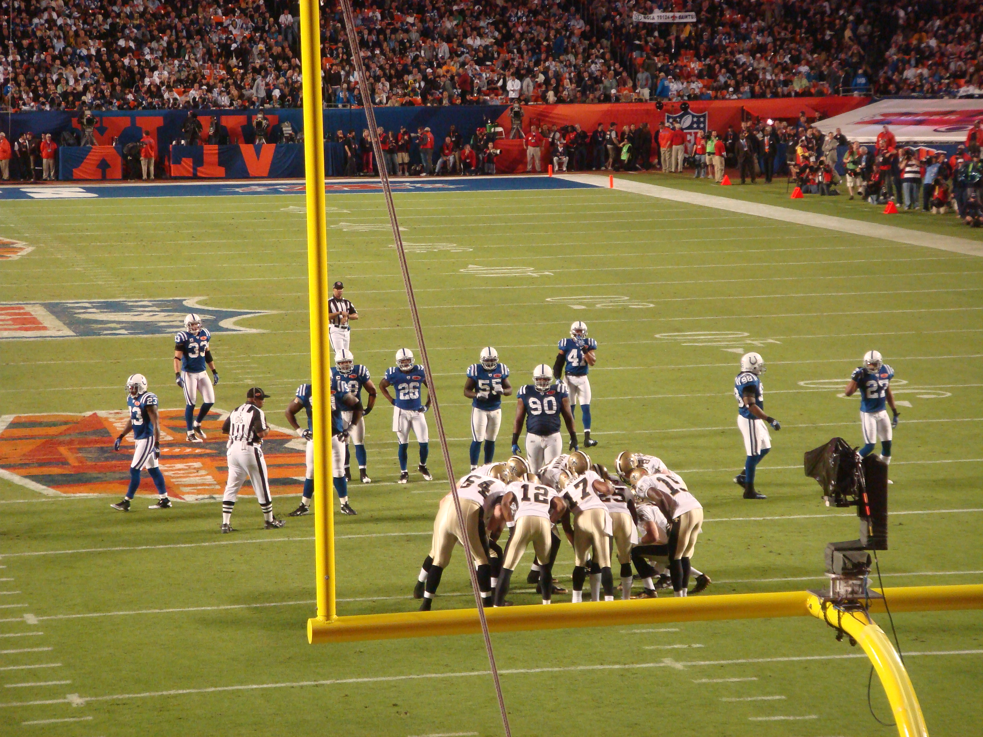 The Huddle